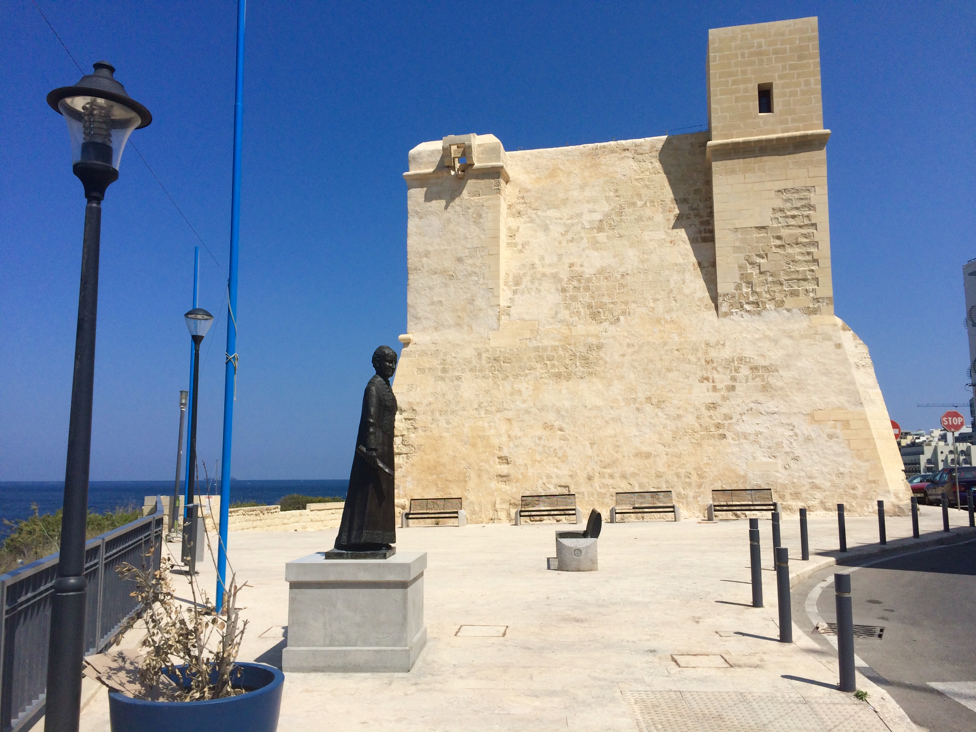 St Paul Bay Tower and Battery This media is about Maltese cultural property with inventory number 00055.